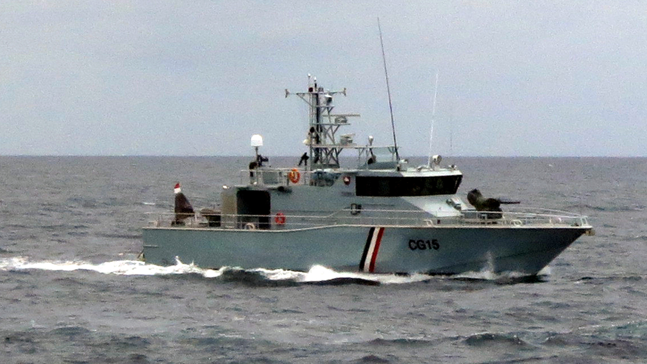 The Dominican Republic patrol boat GC 109 Orion, right, and the Trinidad and Tobago patrol boat TTS 15 Poui cruise their way back to Pointe Seraphine in Castries, St. Lucia, May 23, 2013, after an interdiction exercise during Tradewinds 2013. Tradewinds is a chairman of the Joint Chiefs of Staff-directed, U.S. Southern Command-sponsored joint/combined annual exercise designed to improve cooperation and interoperability of partner nations in responding to regional security threats. (U.S. Marine Corps photo by Staff Sgt. Earnest J. Barnes/Released)